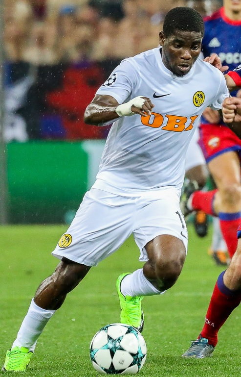 Roger Assalé with Young Boys in a UEFA Champions League game against CSKA Moscow.